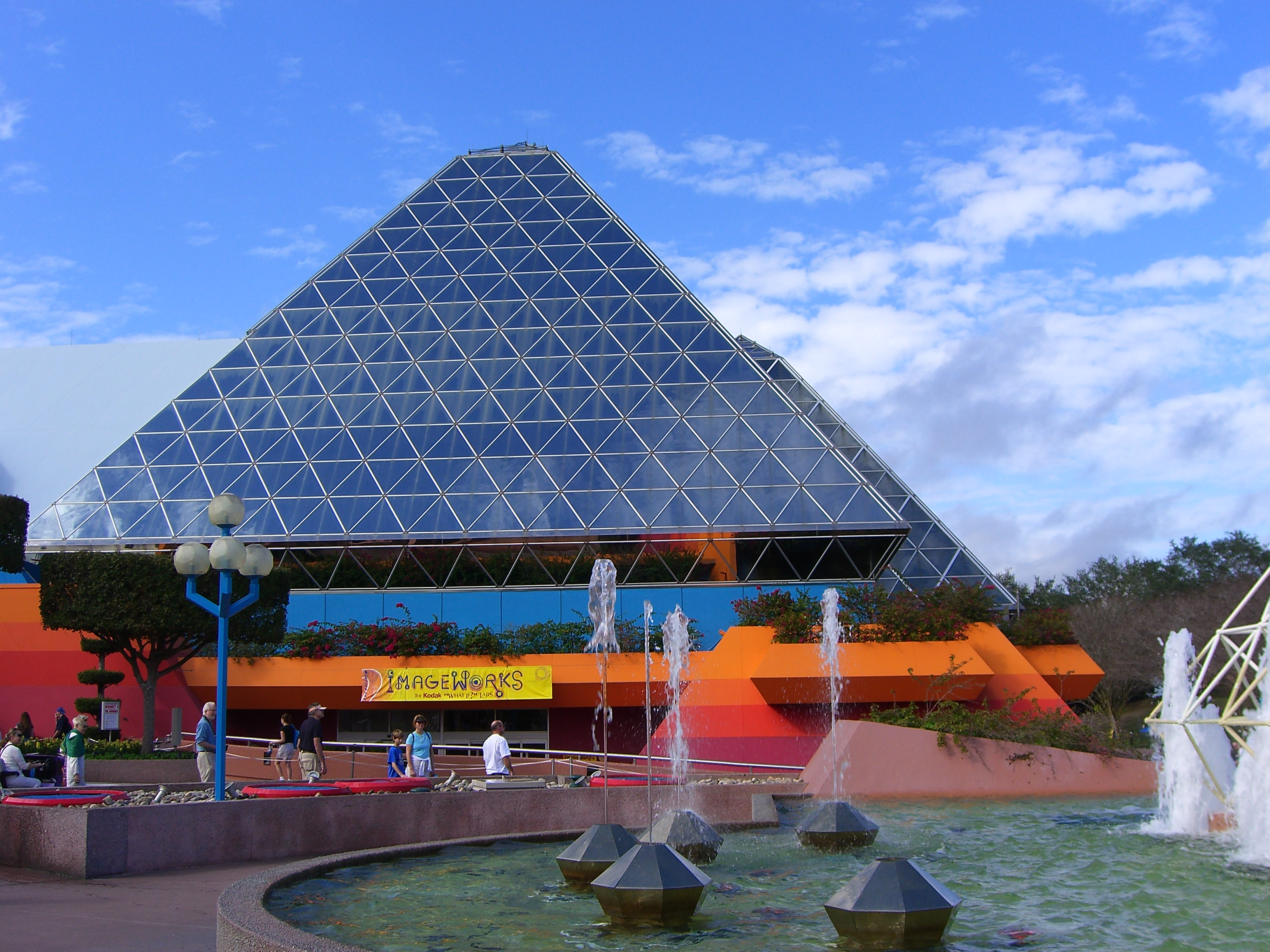 Imagination! building at Epcot with fountains in the foreground.